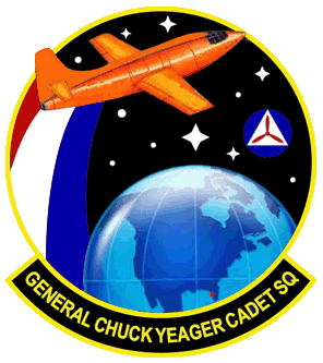 Official emblem of the General Chuck Yeager Cadet Squadron (SER-FL-237)